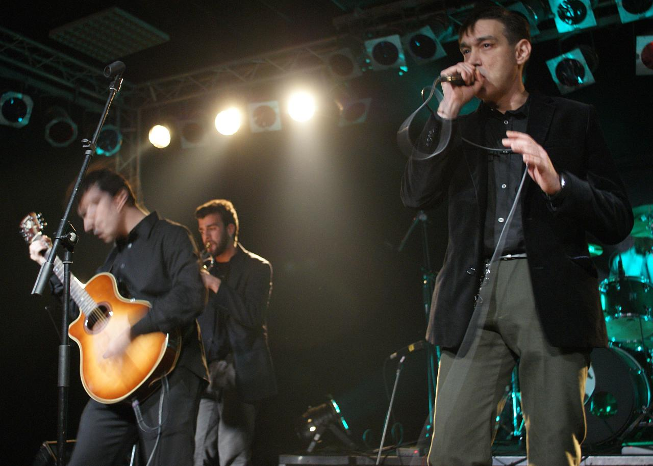 Ianva from Italy, performing their original mixture of folk, wave and cinematic music.